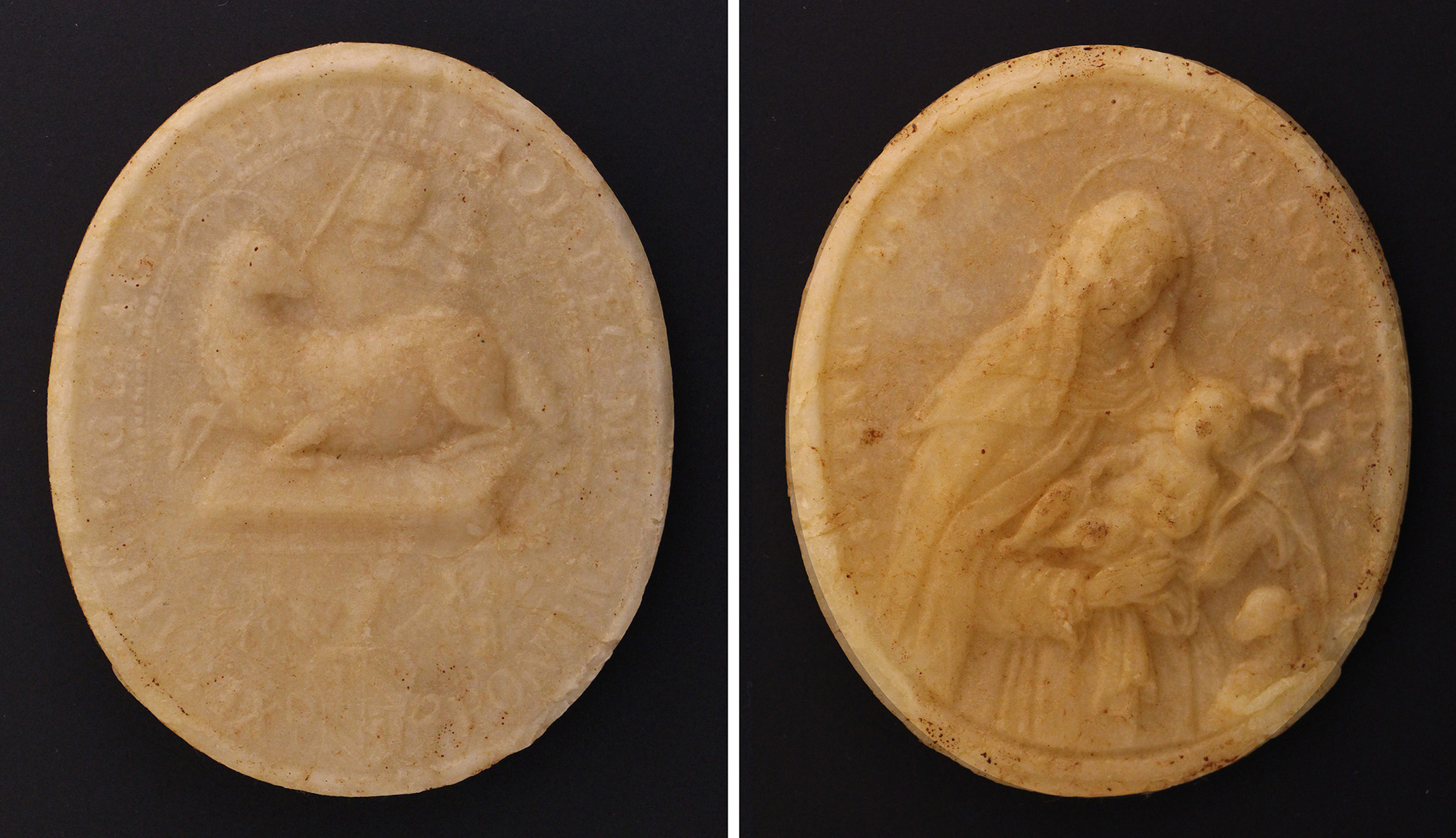 Agnus Dei, 1858. On the over side, Saint Agnes of Montepulciano